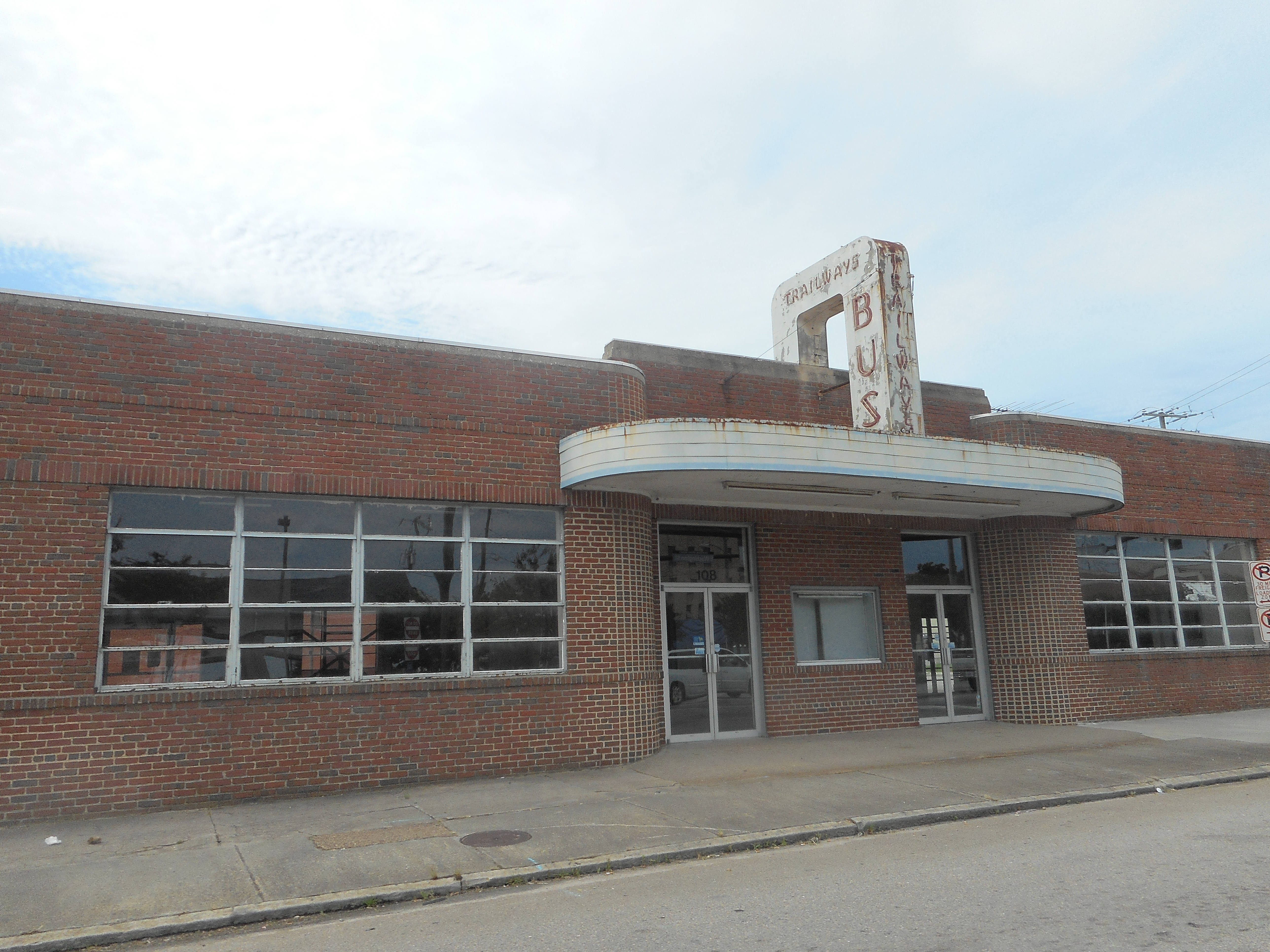 The former Petersburg Trailways Bus Station on the southeast corner of South Adams Street and East Washington Street in Petersburg, Virginia. Currently listed on the National Register of Historic Places. Further details and a rename to come.